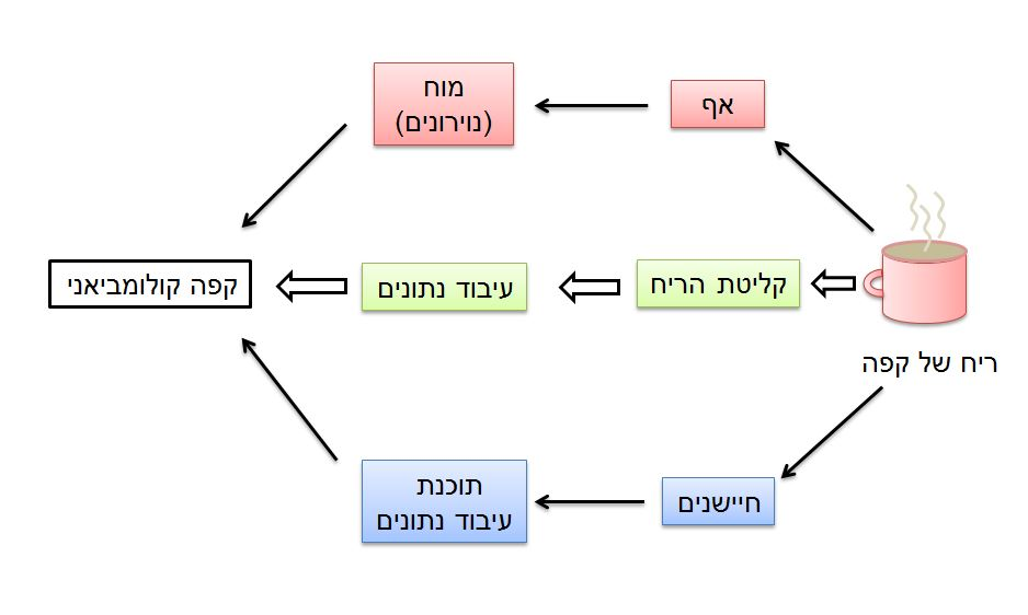 analogy between electronic nose and real nose